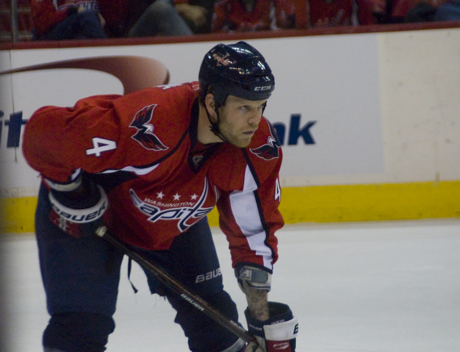 John Erskine Photo taken on March 3, 2011 by Sarah Connors. St. Louis Blues vs. Washington Capitals – National Hockey League (NHL) This photo also appears in sarah_connors' Flickr photostream Blues @ Caps, 3/3/11 (Set: 134) Flickr Tags: St. Louis Blues, Washington Capitals, Capitals, Caps, Blues, hockey, icehockey, NHL, Verizon Center